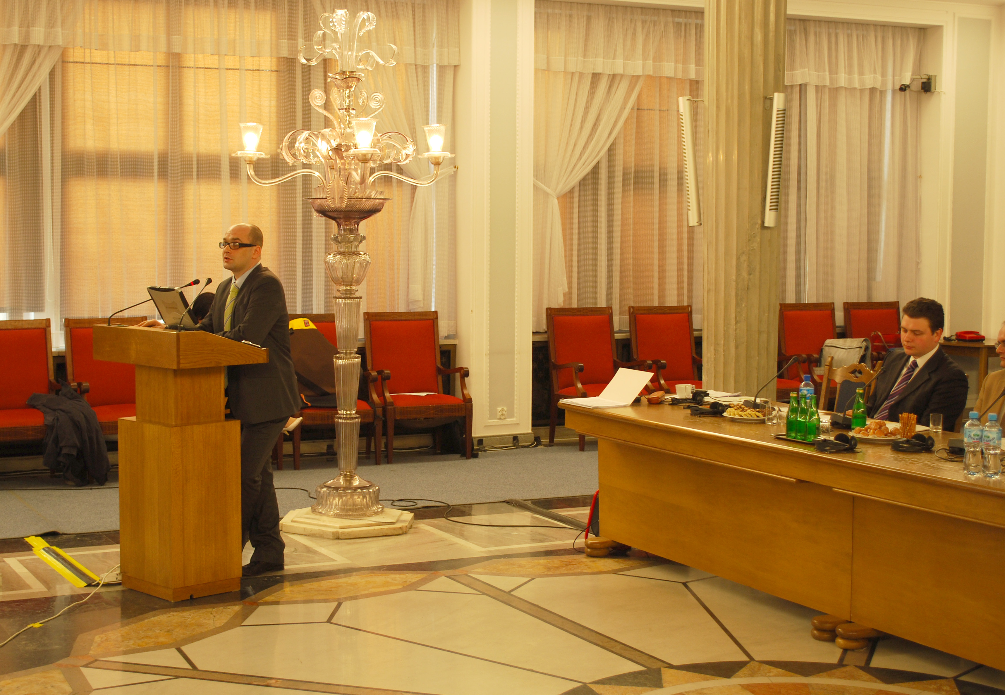 Open Educational Resources in Poland Conference, Polish Parliament. Jarosław Lipszyc final remarks This work is free and may be used by anyone for any purpose. If you wish to use this content, you do not need to request permission as long as you follow any licensing requirements mentioned on this page.